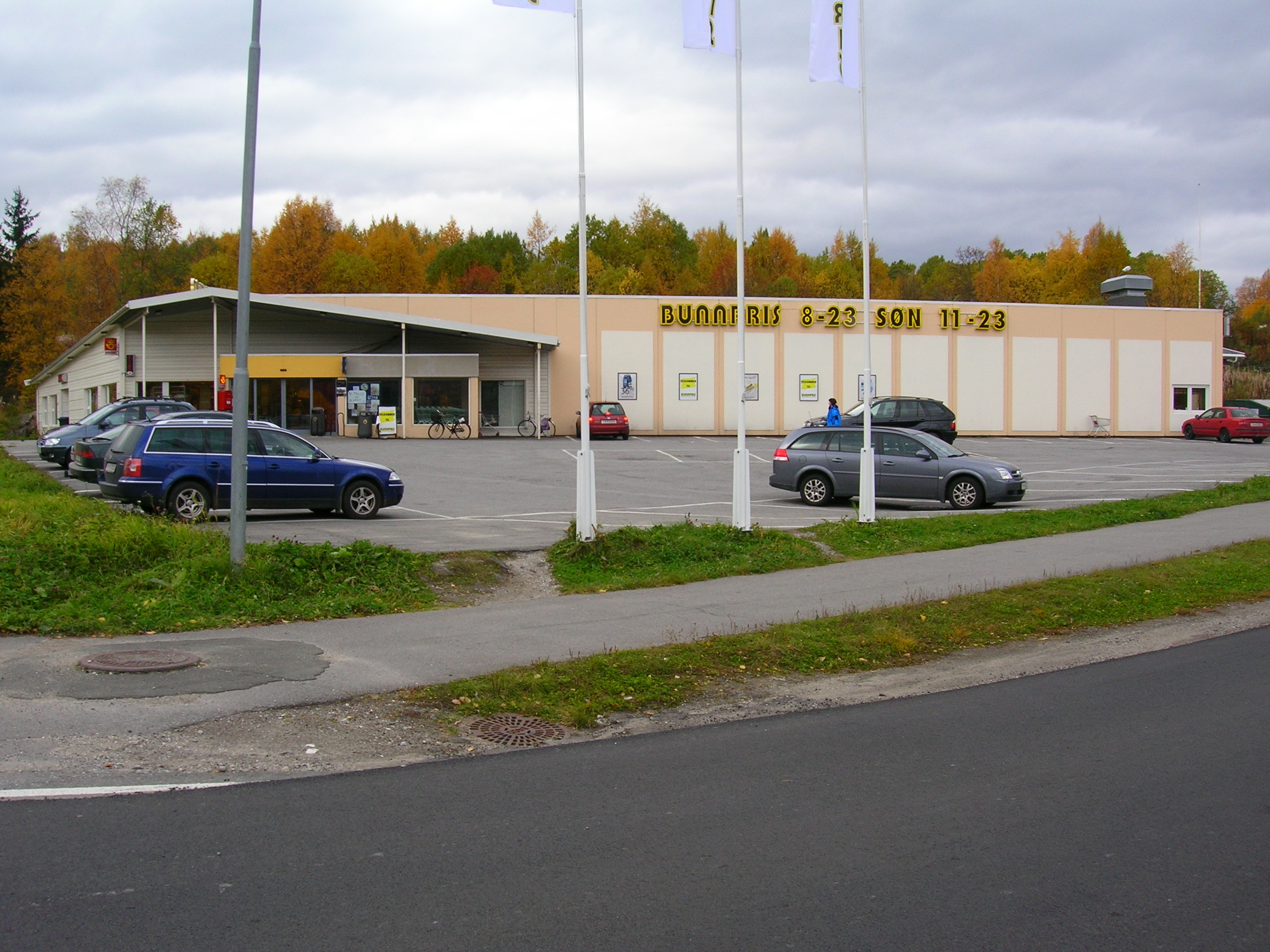 The grocery store «Bunnpris» on Båsmoen, Rana municipality, Nordland. Photo October 1, 2007 with a Nikon Coolpix 5600 5,1 Megapixel camera.